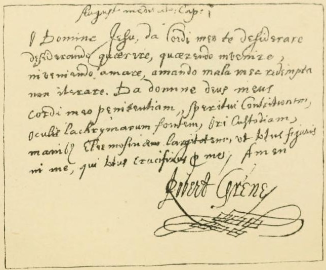 Robert Greene's prayer, 1592